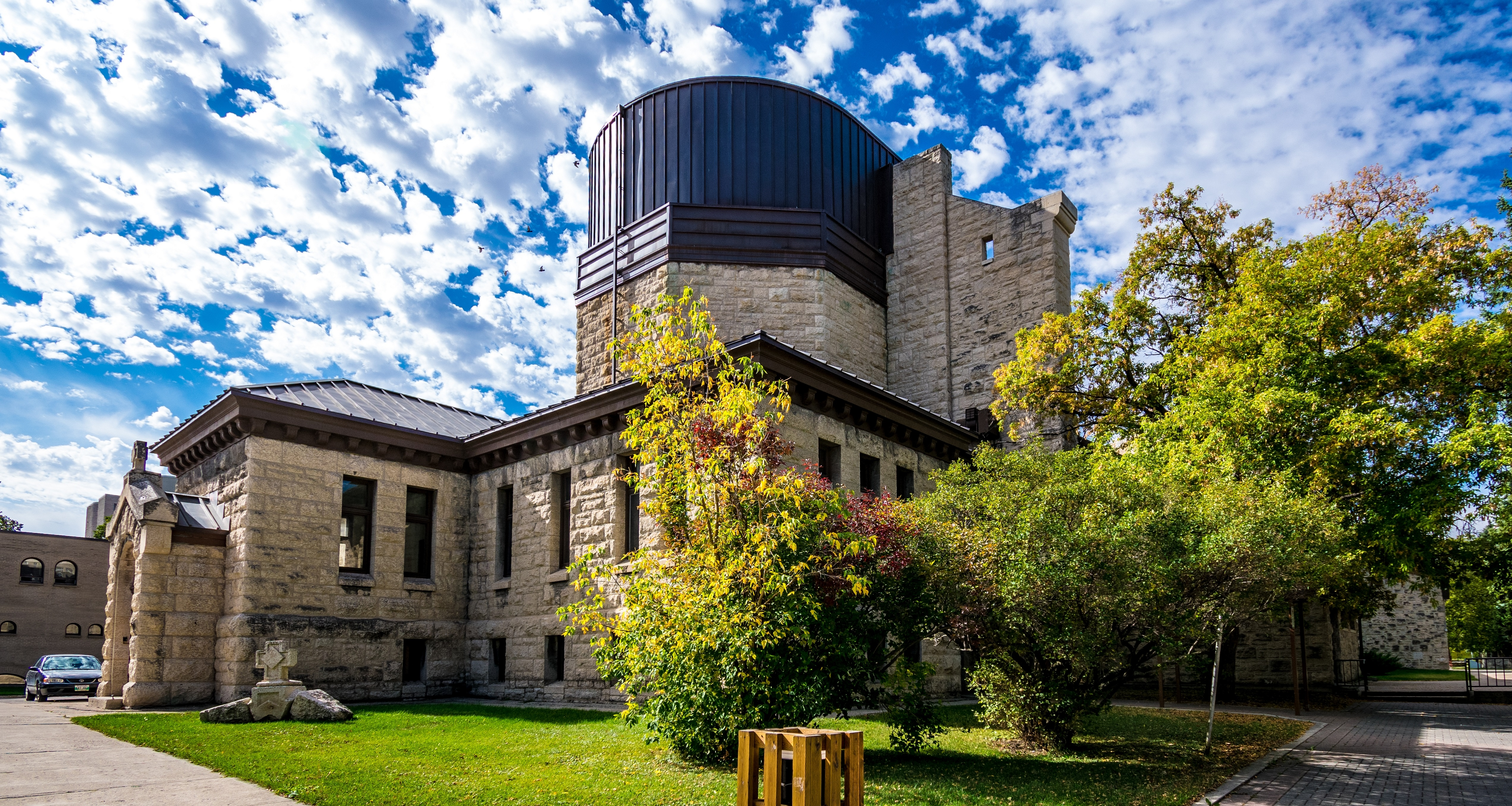 Winnipeg, Roman Catholic Cathedral Saint Boniface